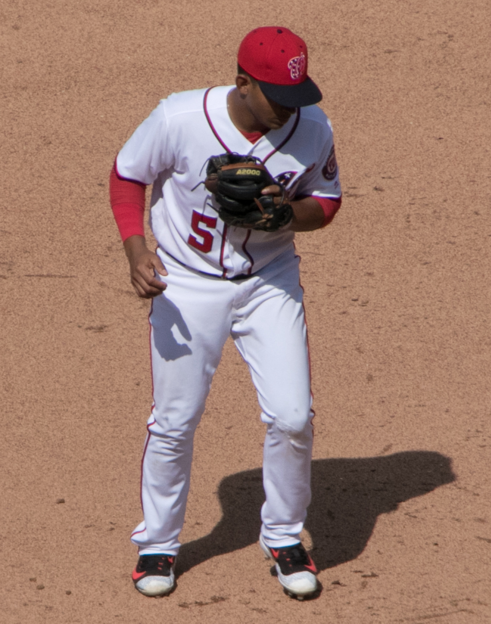 Adrian Sanchez (left) of the Washington Nationals watches Joe Panik of the San Francisco Giants slide into second base during a 2017 game at Nationals Park in Washington.